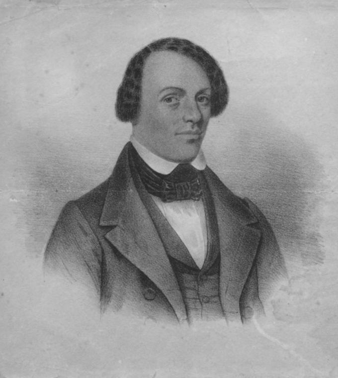 A lithograph of George Latimer, who escaped from slavery in 1842.